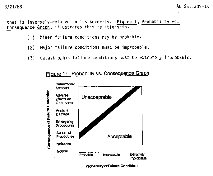 Probability vs consequence graph, perexcerpt from FAA AC 25.1309-1A